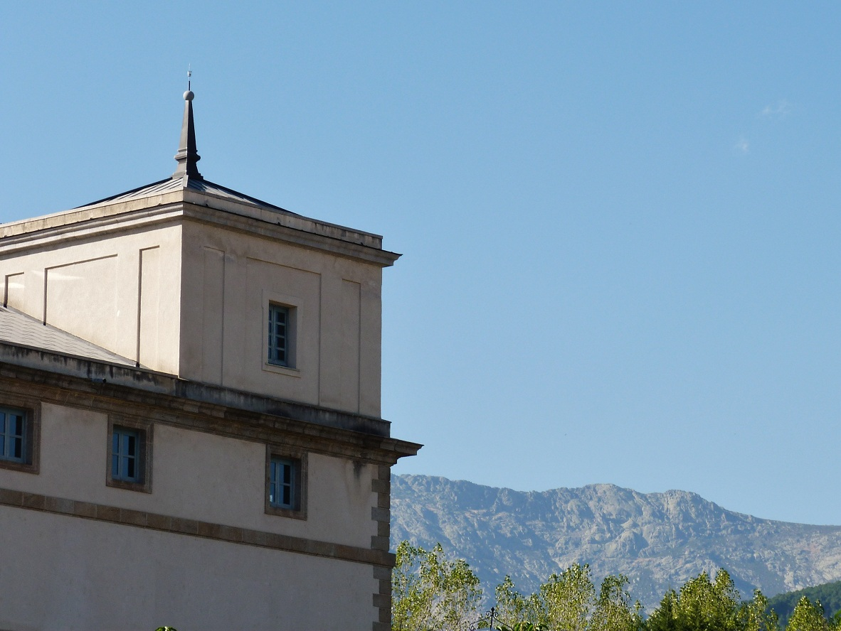 Palacio de la Mosquera in Arenas de San Pedro (Castilla y León, Spain).